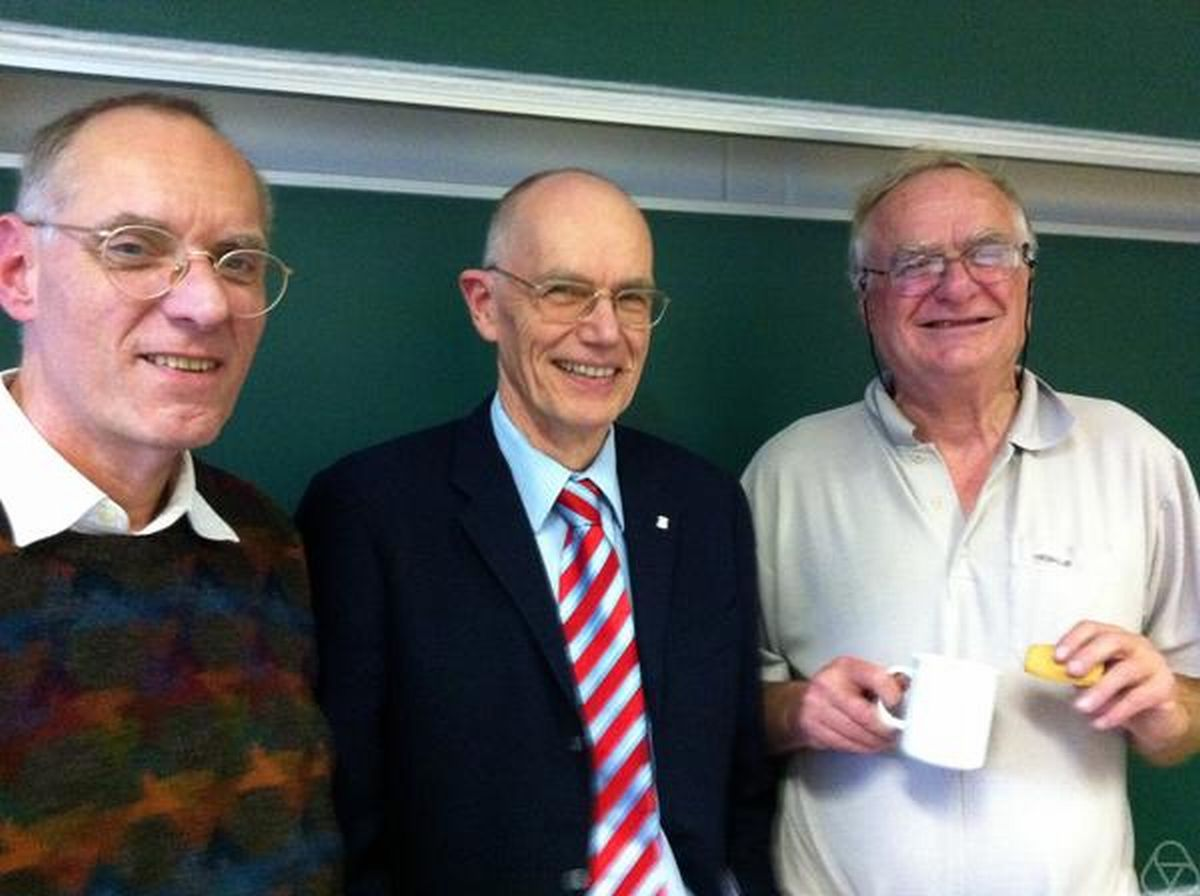 Gernot Stroth (left), Ulrich Dempwolff, Hans Kurzweil (right), Kaiserslautern 2010